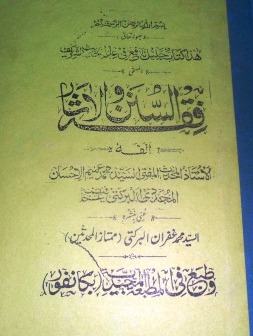 الفقه السنن والا شار